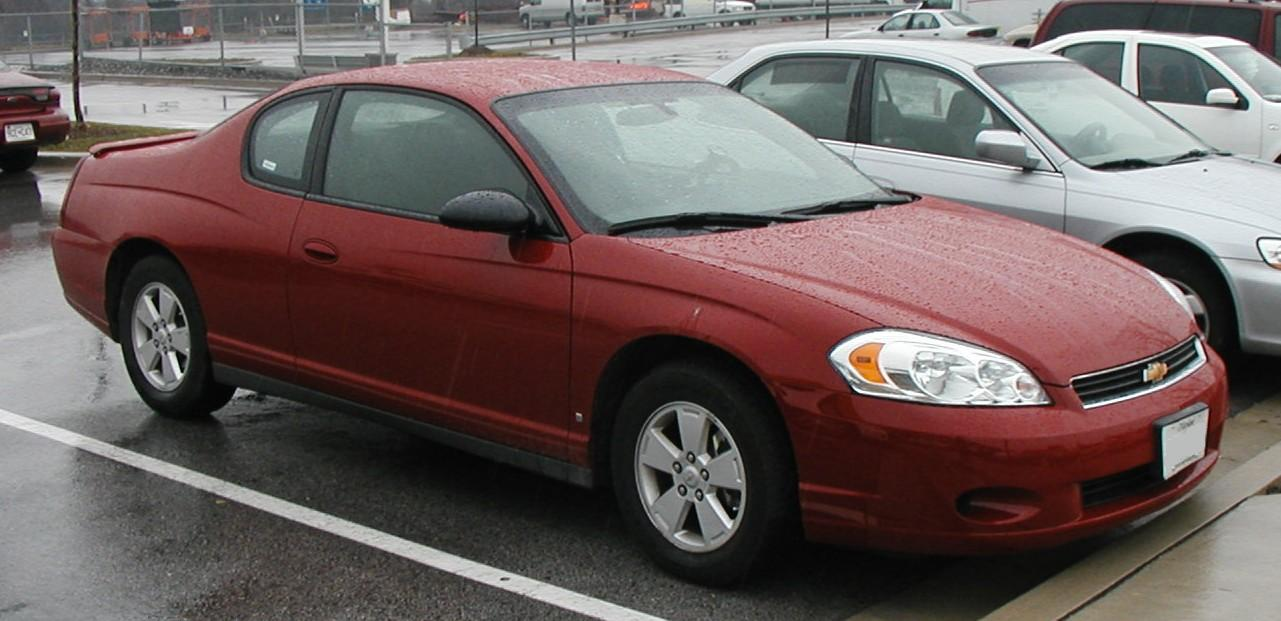 2006-2007 Chevrolet Monte Carlo photographed in USA.